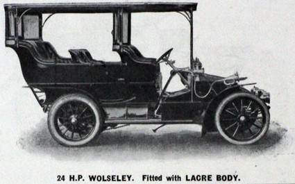 1905 Wolseley 24 HP Tourer with Surrey Top. Lacre Motor Co. coachwork. Lacre used this picture in a 1905 advertisement.